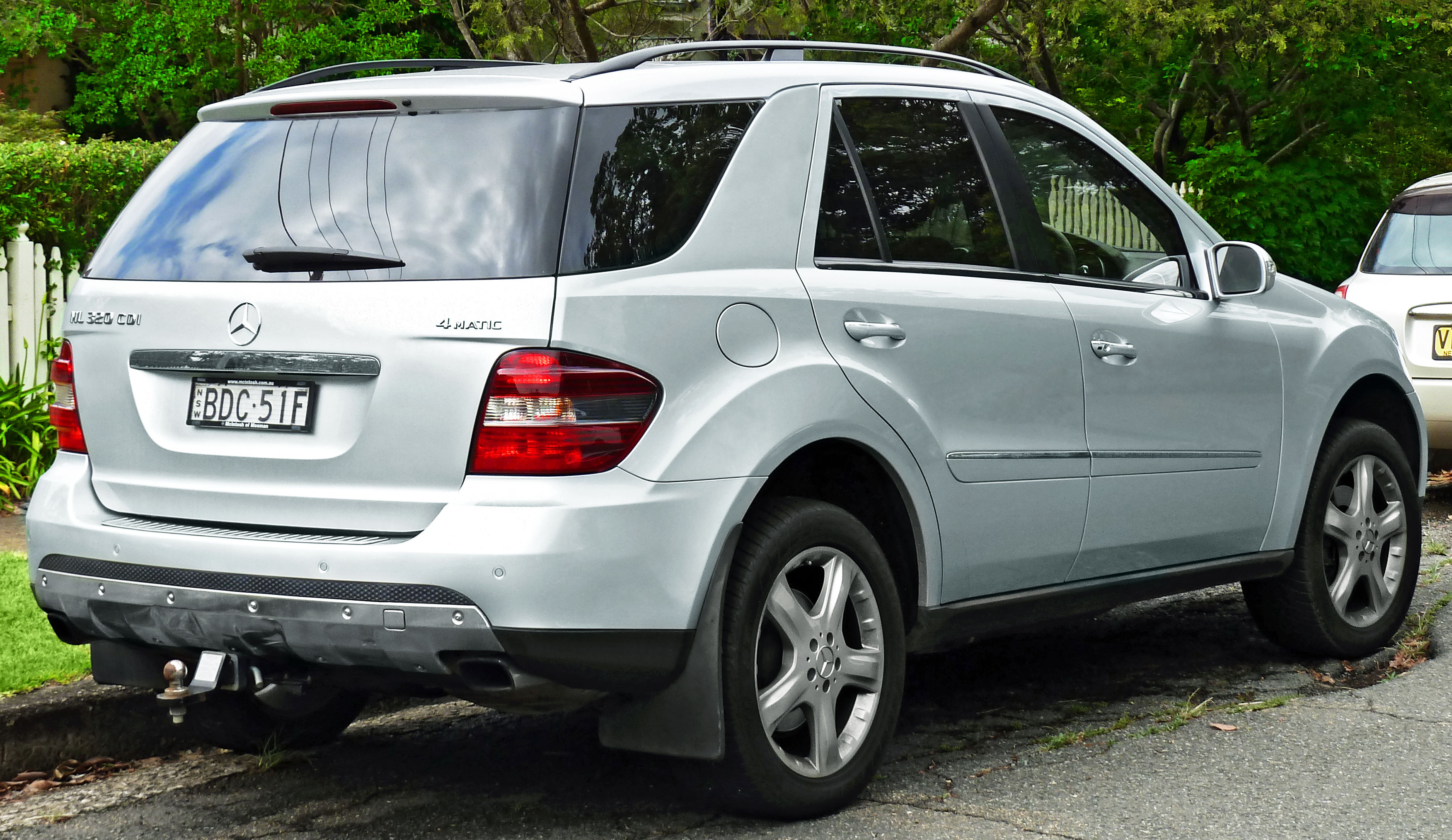 2007 Mercedes-Benz ML 320 CDI (W 164 MY08) Luxury wagon. Photographed in Gordon, New South Wales, Australia.